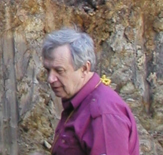 Doc. RNDr. Jaroslav Kraft, Ph.D. in the field